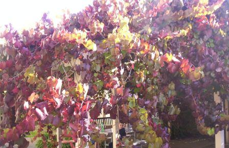 Vitis cognitiae, Rigwood East, Victoria Australia HelloMojo 09:02, 1 April 2007 (UTC)